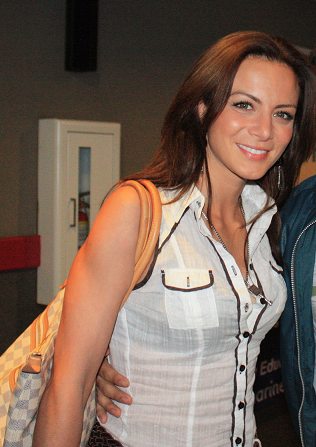 pic of Silvia Navarro withou fan